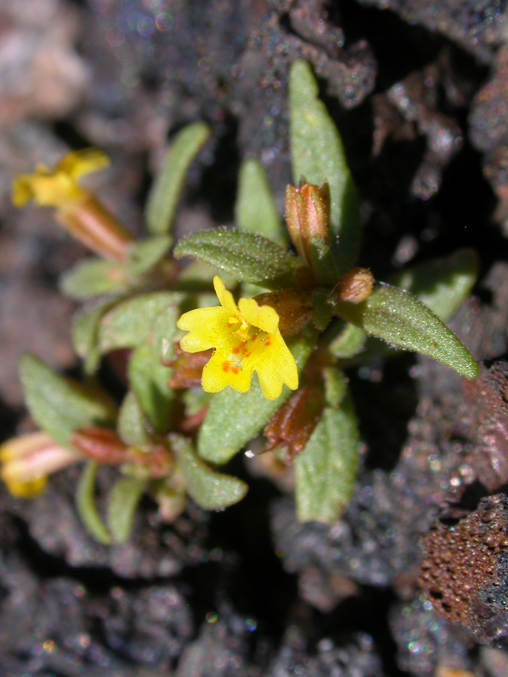 Erythranthe suksdorfii (formerly Mimulus suksdorfii). Photo taken in Butte County, Idaho.